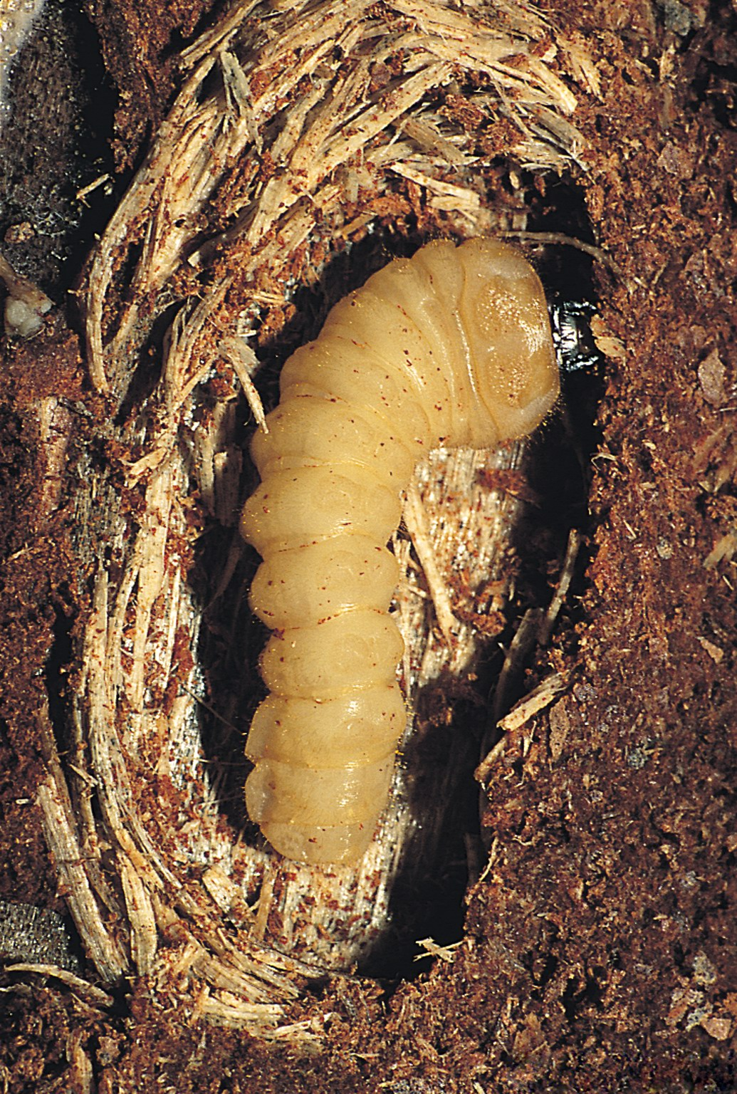 Acanthocinus aedilis Common Name: timberman Photographer: Gyorgy Csoka, Hungary Forest Research Institute, Hungary Descriptor: Larva(e) Image taken in: Hungary